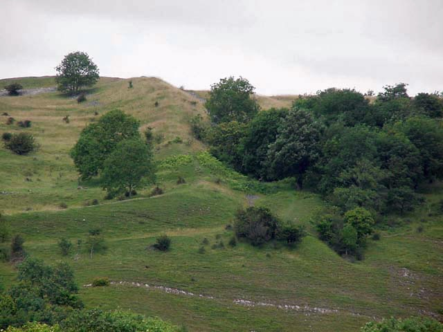 Dolebury Hill Fort Dolebury is one of two large hill forts on the Mendips - the other is at Masbury near Wells.